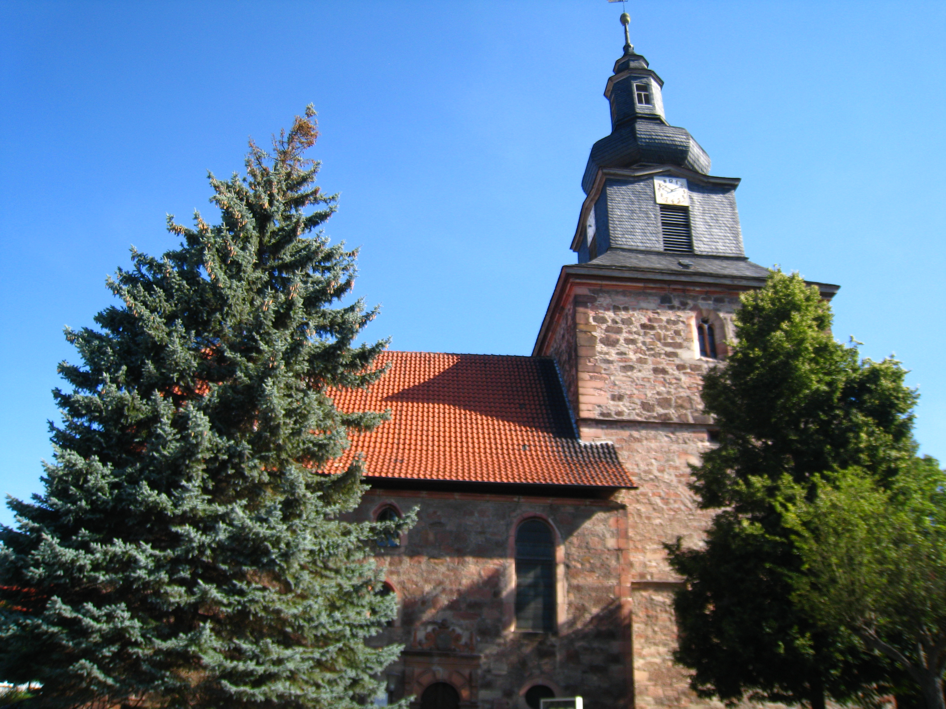 Peterkirche in Tiefrnort, Turyngia, Germany